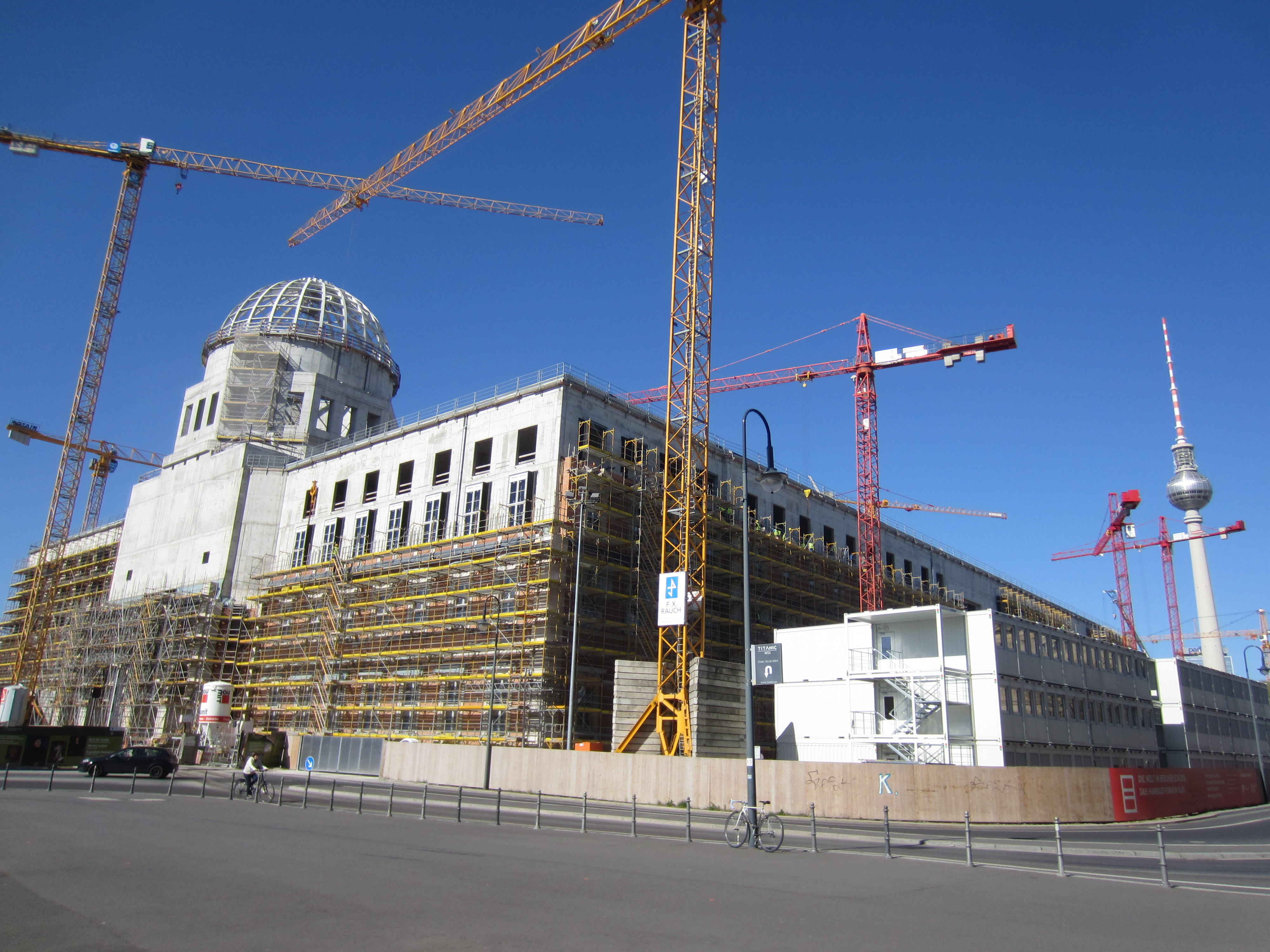 Berlin, Germany (April 2016)